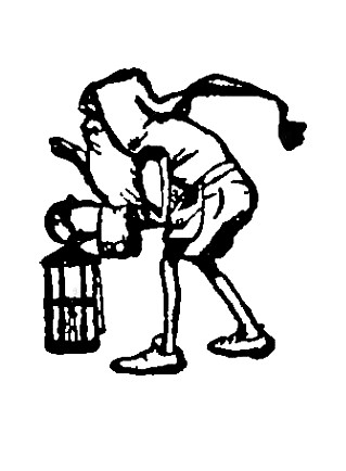 Illustration.